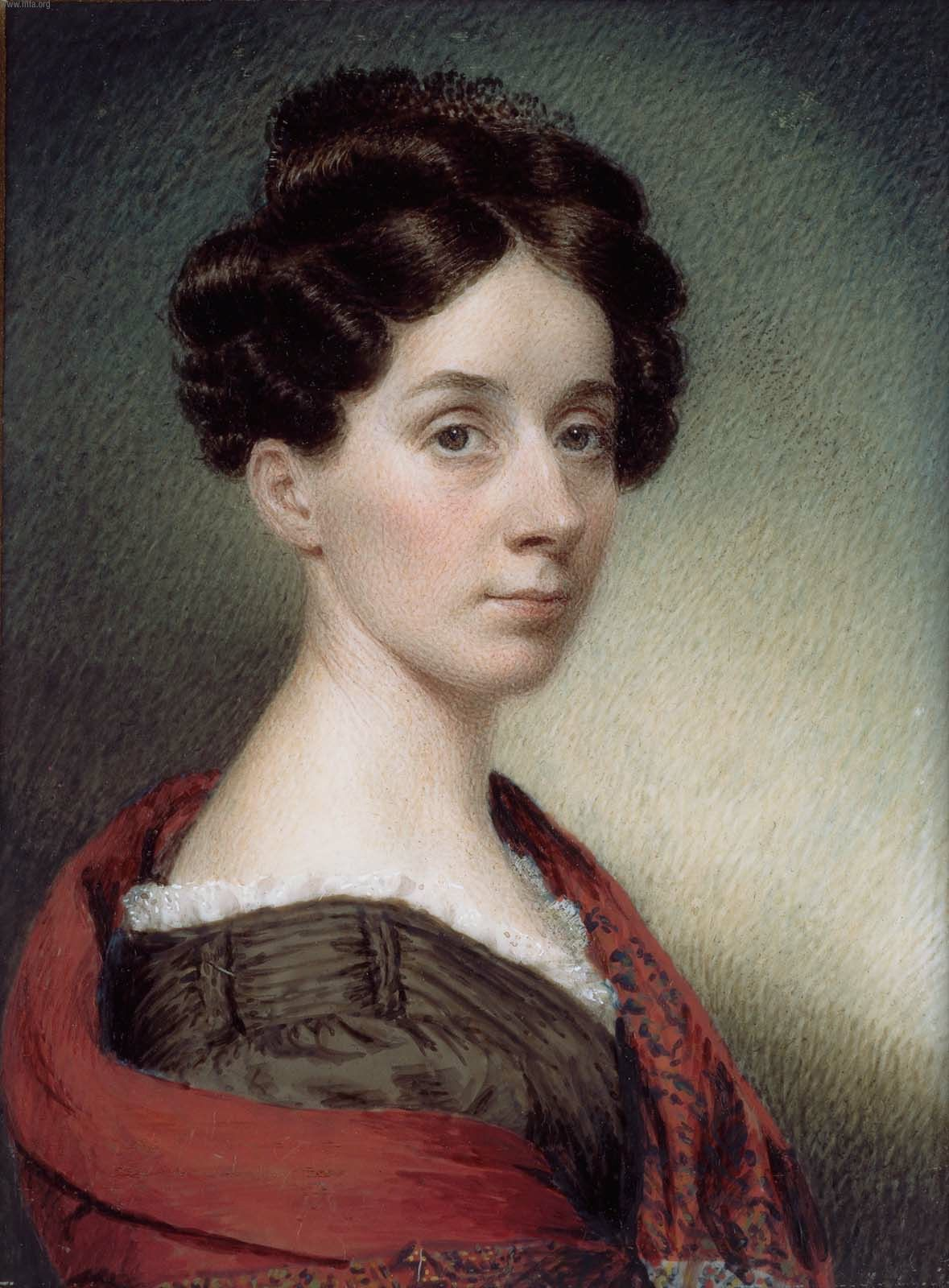 Self portrait, watercolor on ivory, 4x3 inches, 1830.